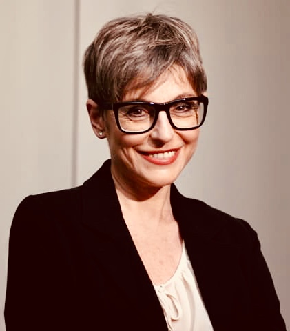 Sara Alzetta in 2018